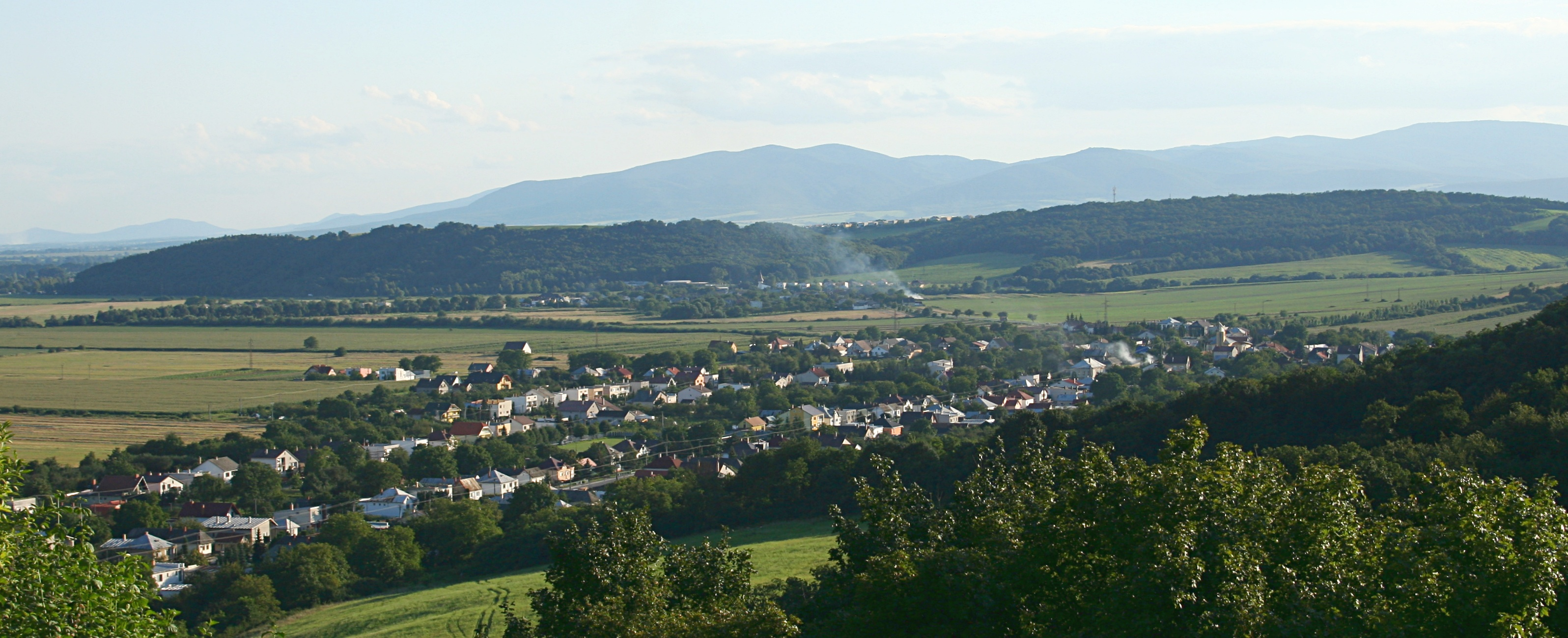 Majerovce - view from Čičava Castel, village in Slovakia